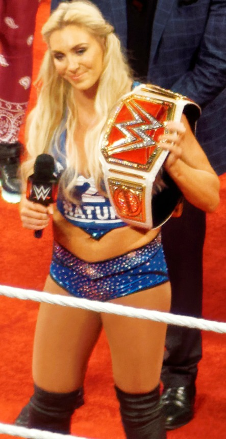 Charlotte posing with the WWE Women's Champion one night after WrestleMania 32 on Raw in April 4, 2016.